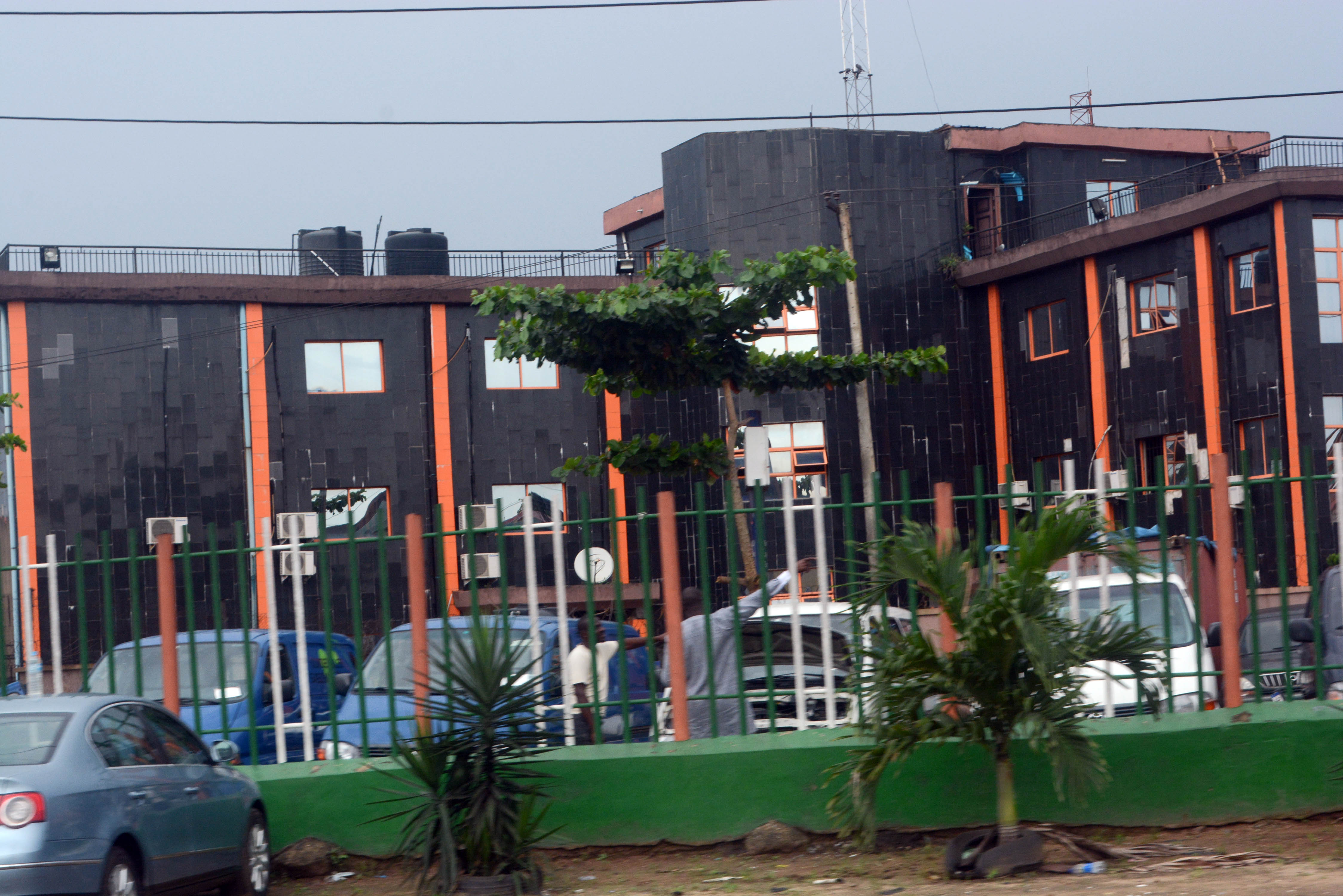 Berger, Lagos Ibadan Express way